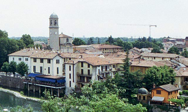 Canonica d’Adda seen from Canonica d’Adda. The campanile is of the church pictured in Image:Canonica d'Adda.JPG